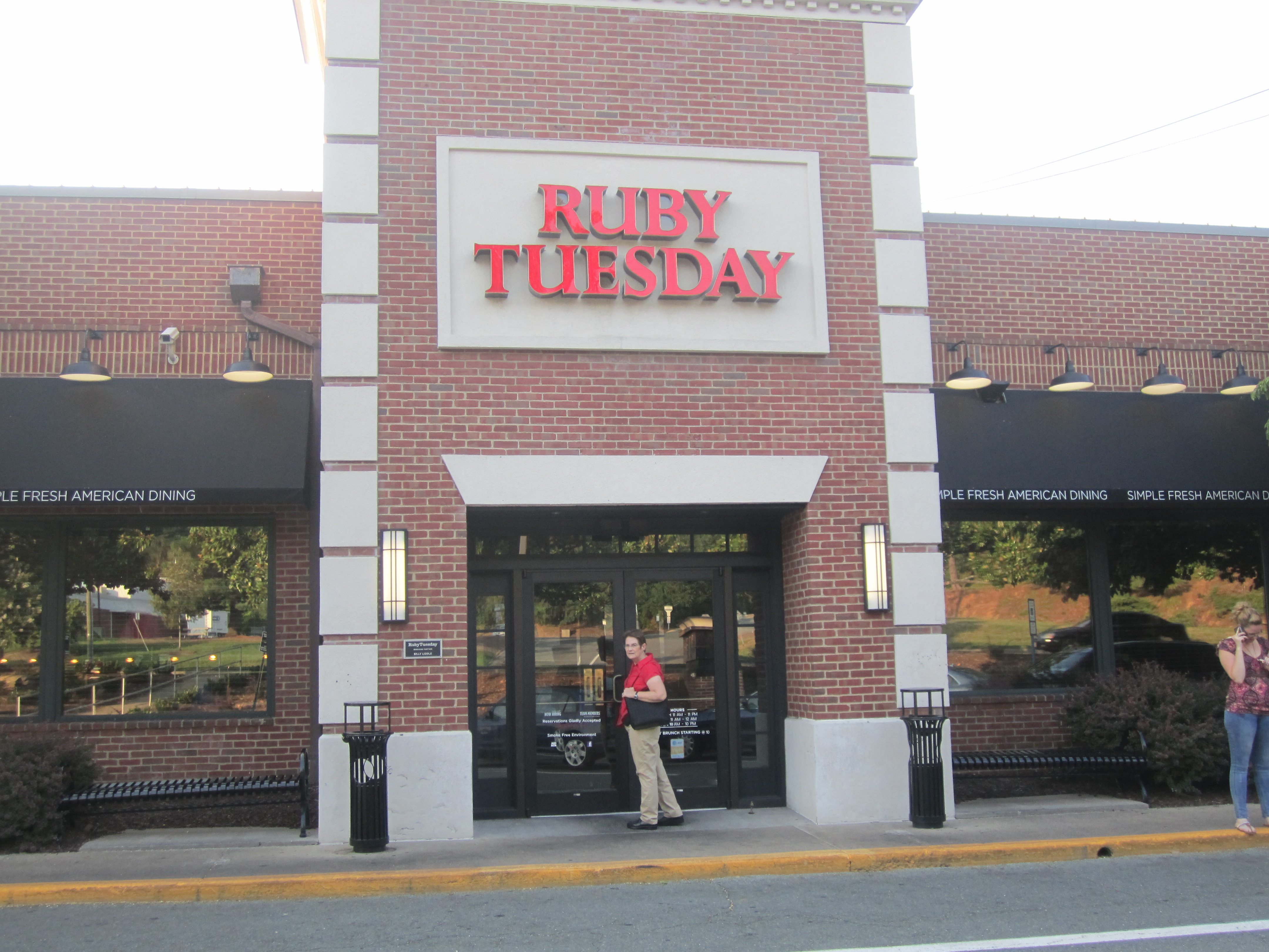 I took photo of Ruby Tuesday restaurant in Charlottesville, VA, with Canon camera.